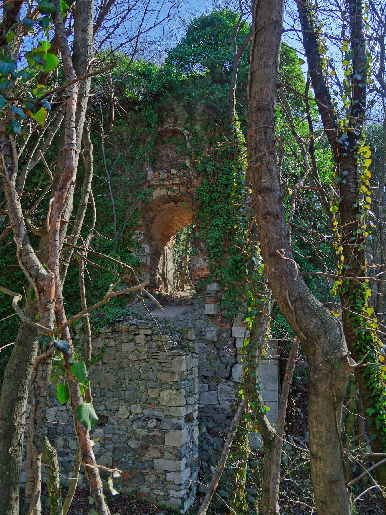 Ruin of Scharfeneck-castle near Mannersdorf am Leithagebirge, Lower Austria, Austria